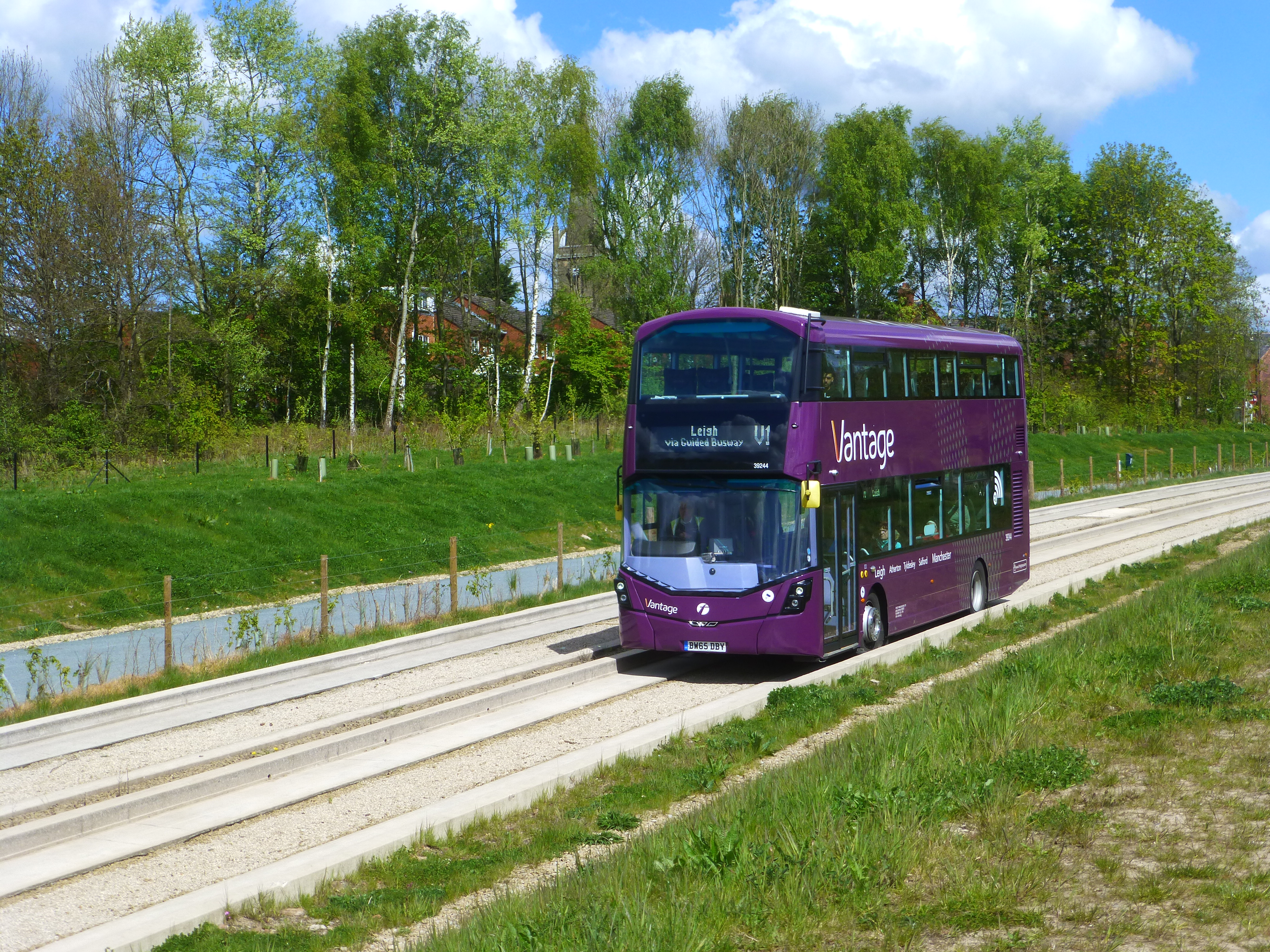 A Vantage bus on route V1 on the Manchester - Leigh kerb guided busway.